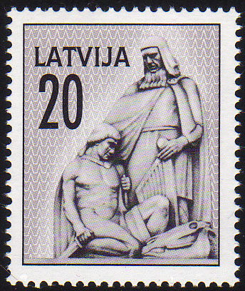 Postage stamp issued by Latvia 1992 depicting fragment view of monument in Riga, Latvia.